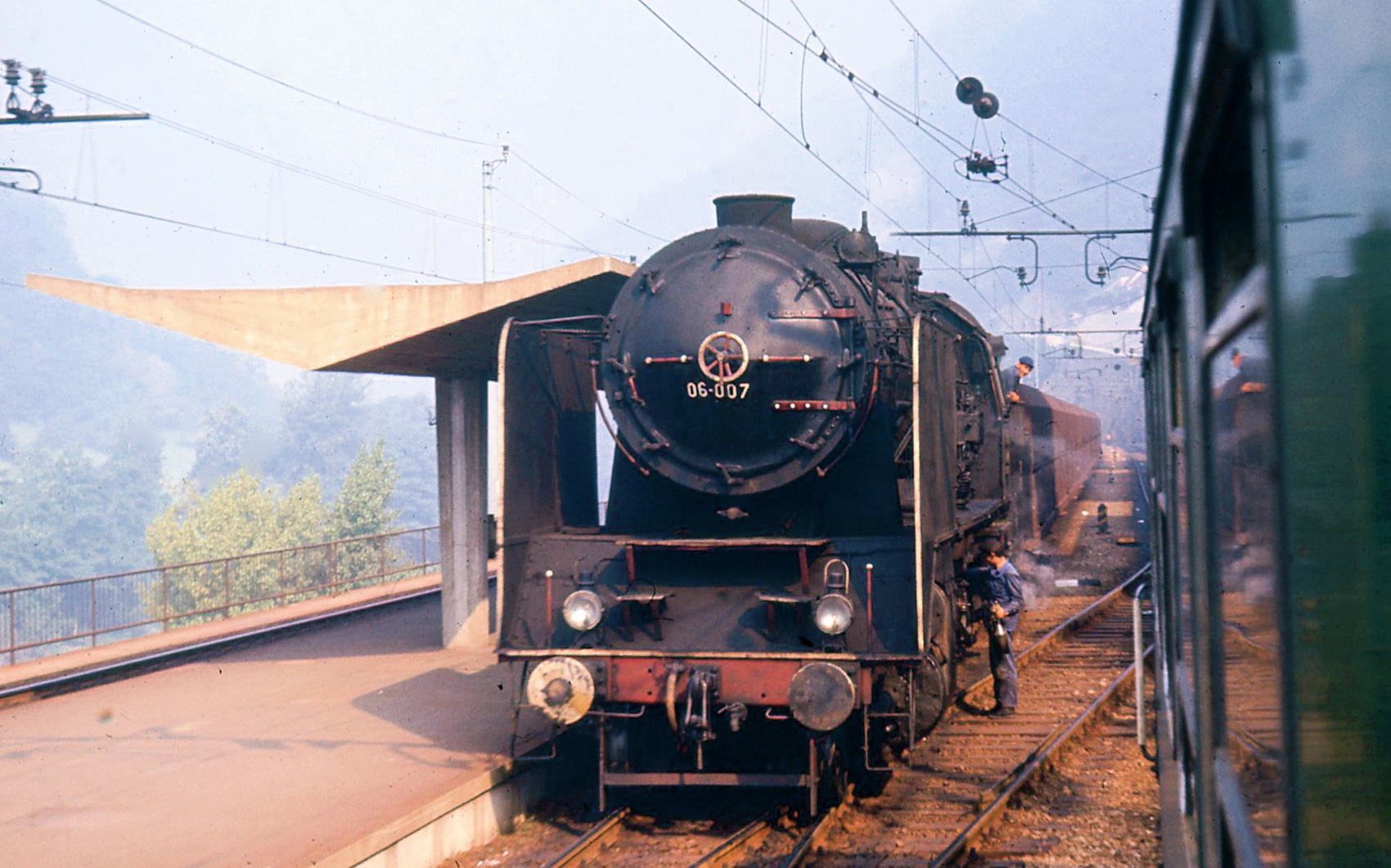 Yugoslav Railways (JŽ) Class 06 2-8-2 at Zidani Most with a train of hoppers